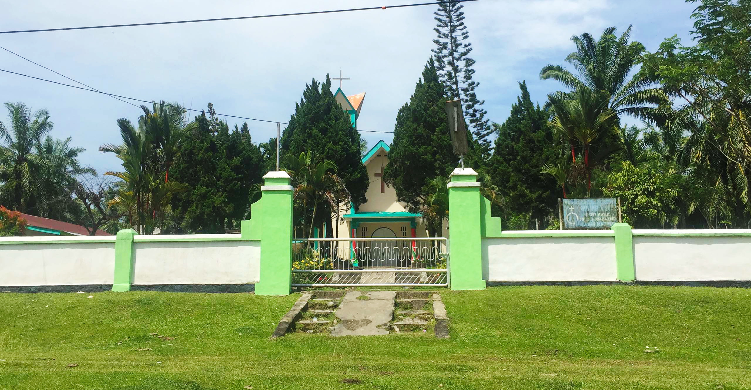 HKBP Marihat Ulu Muda church in silampuyang, siantar, Simalungun